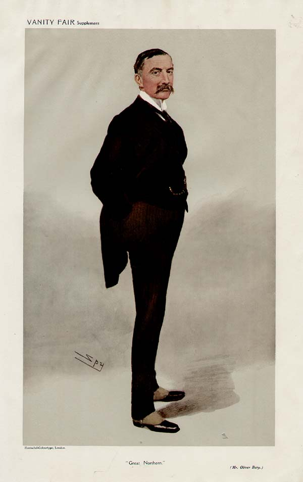 Caricature of Oliver Robert Hawke Bury (1861-1946). Caption read "Great Northern".